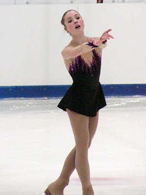 Fleur Maxwell during her free skate at the 2004 Junior Grand Prix event in Germany